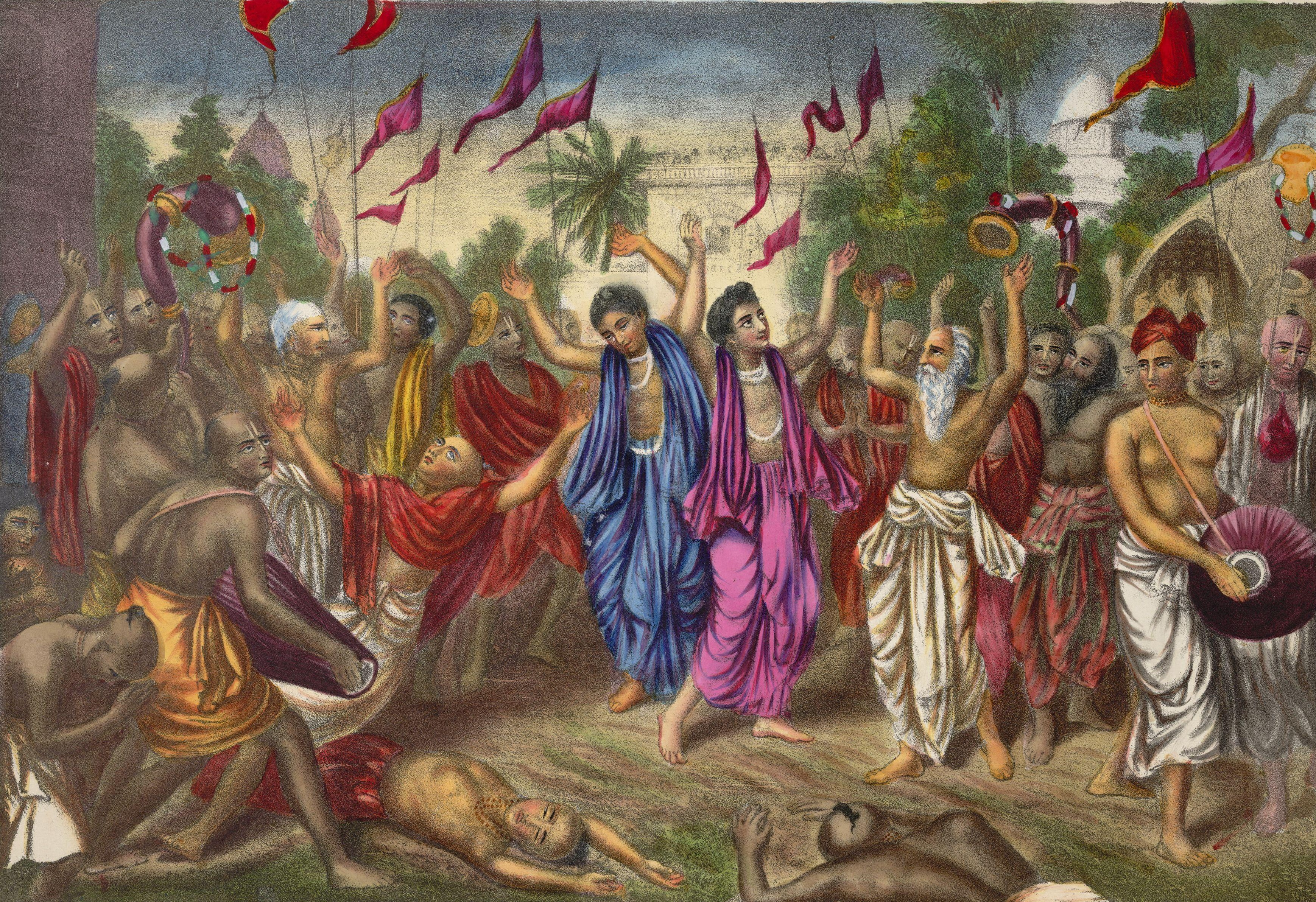 Sri Chaitanya Mahaprabhu, who was born in 1486, is shown performing 'kirtan', devotional chanting and dancing, in the streets of Nabadwip, Bengal.